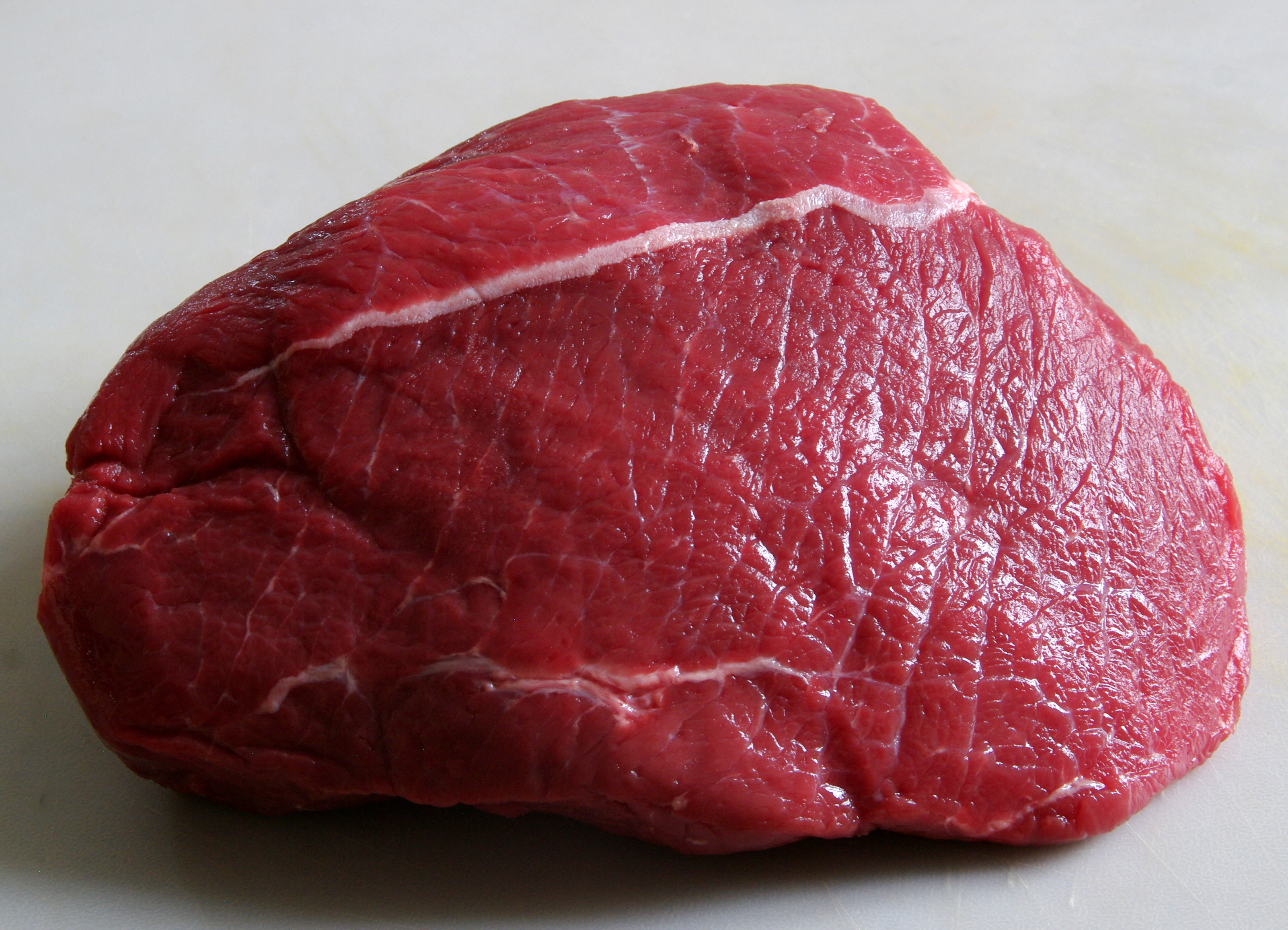 brisket in its natural state